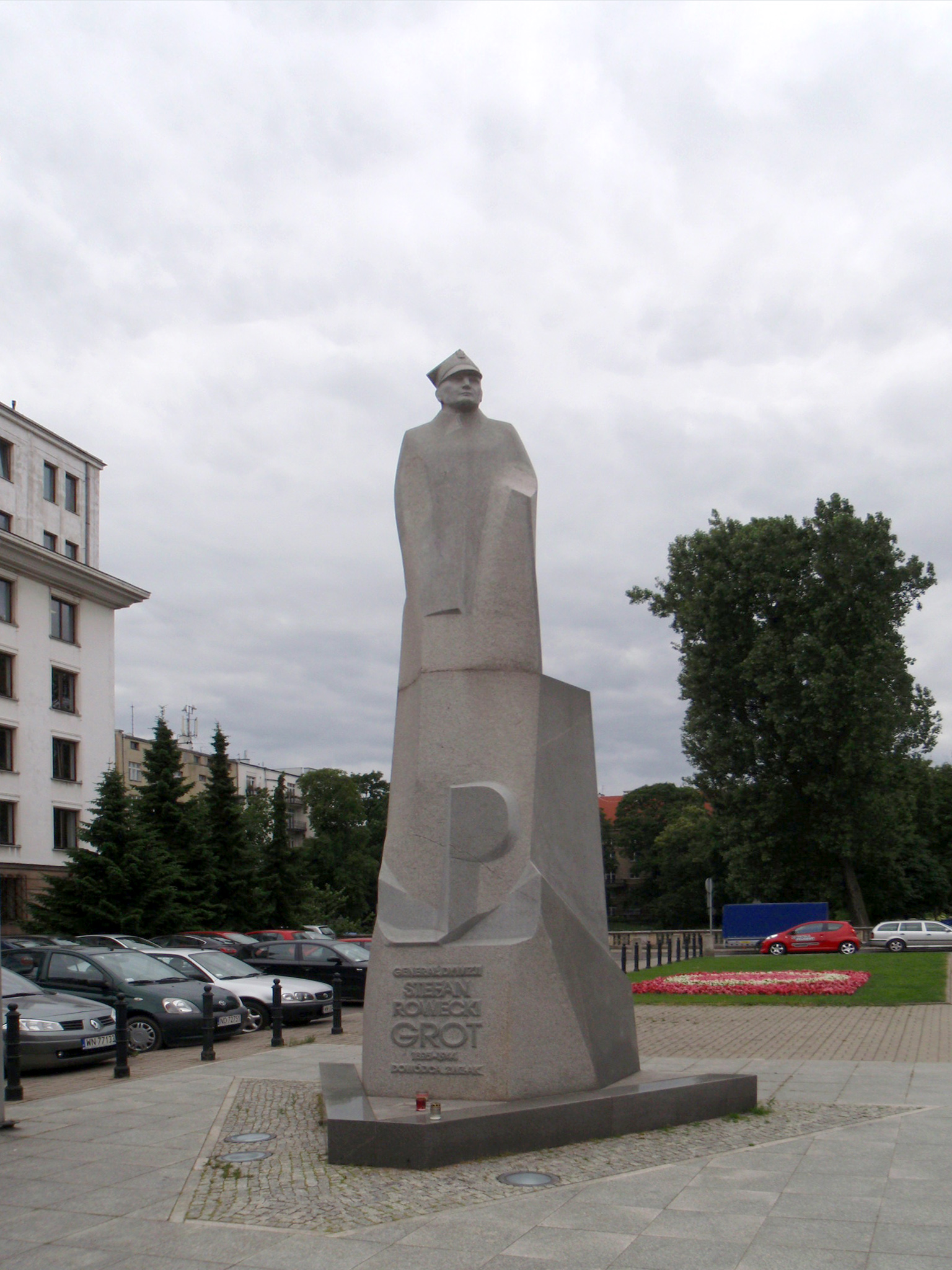 Monument of Stefan Rowecki "Grot" in Warsaw, Chopin street